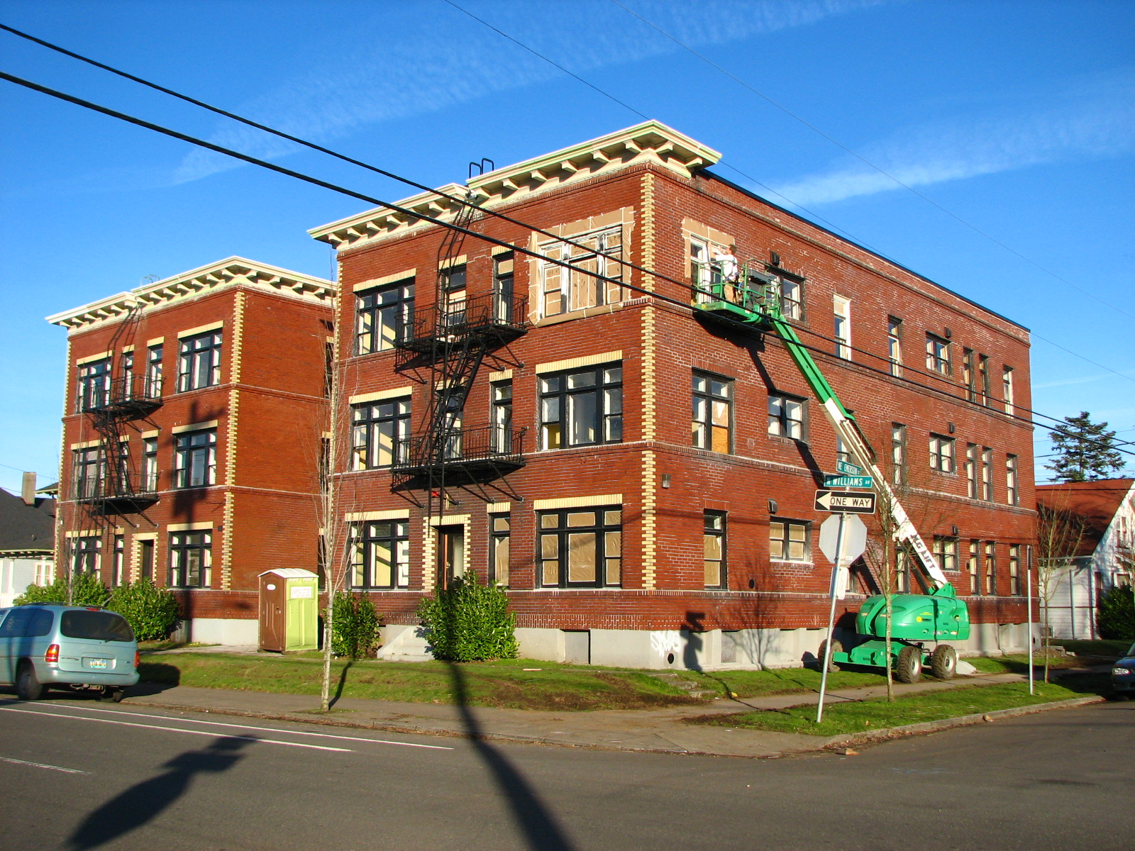 The historic Emerson Apartments (built 1912), located at 5310 North Williams Avenue in Portland, Oregon, United States, is listed on the US National Register of Historic Places (NRHP).